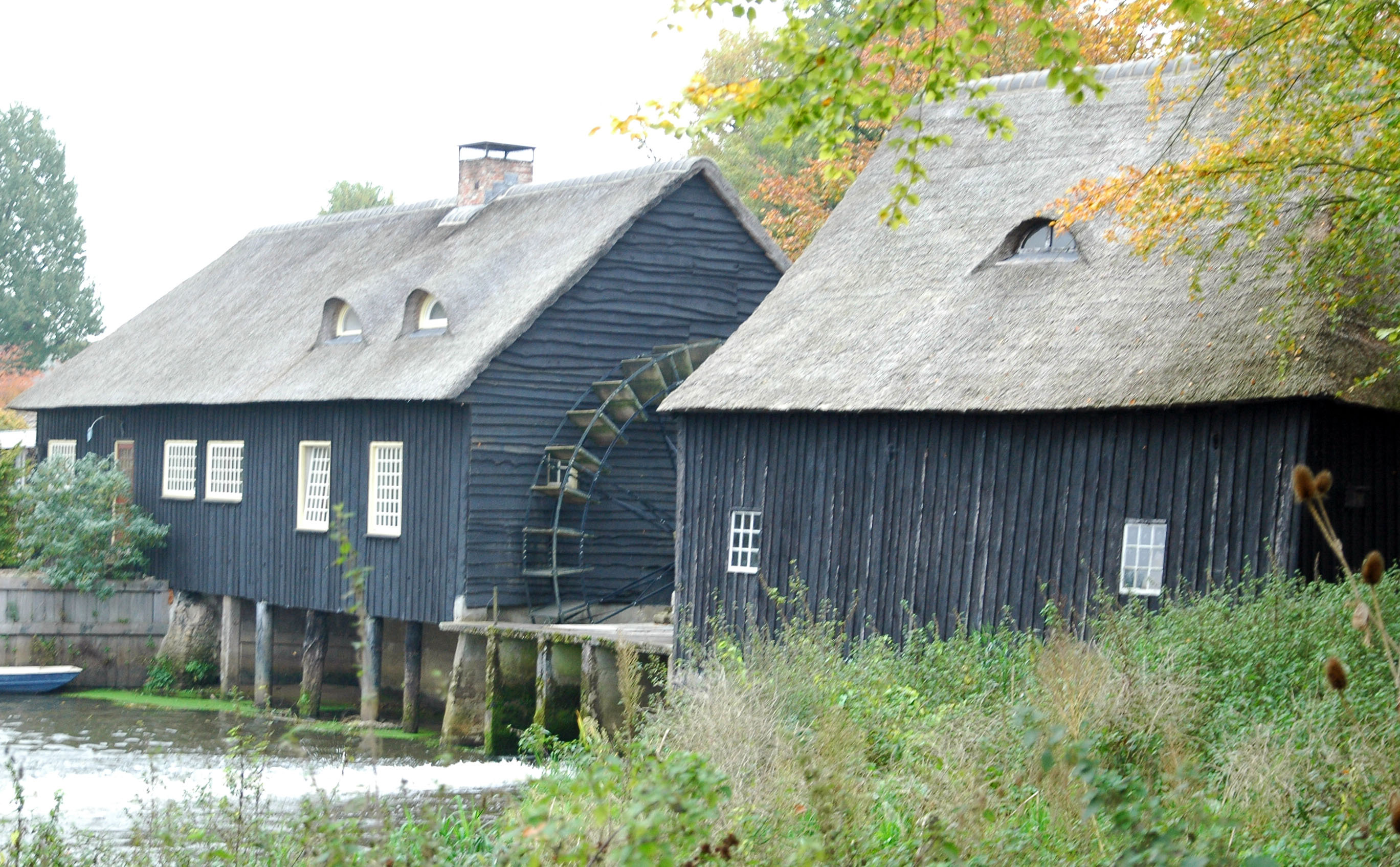 Watermill at Hooydonk (near Nuenen), The Netherlands